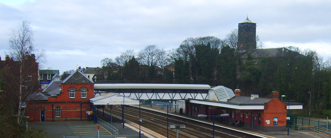 Wellington (Shropshire) Railway Station, Shropshire, England. Taken facing towards the eastbound direction towards Shrewsbury. Edited for use in Wellington article to show townscape.